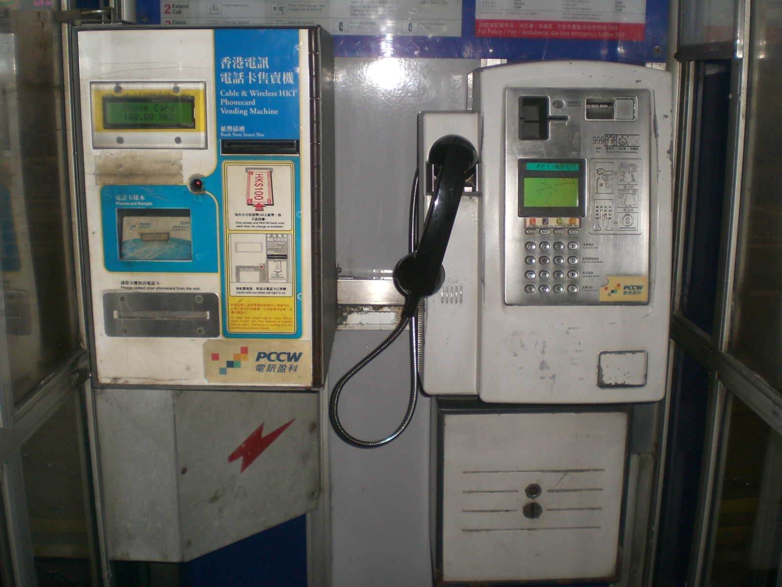 電話亭電訊盈科電話卡自助卡售賣機 @ 銅鑼灣記利佐治街